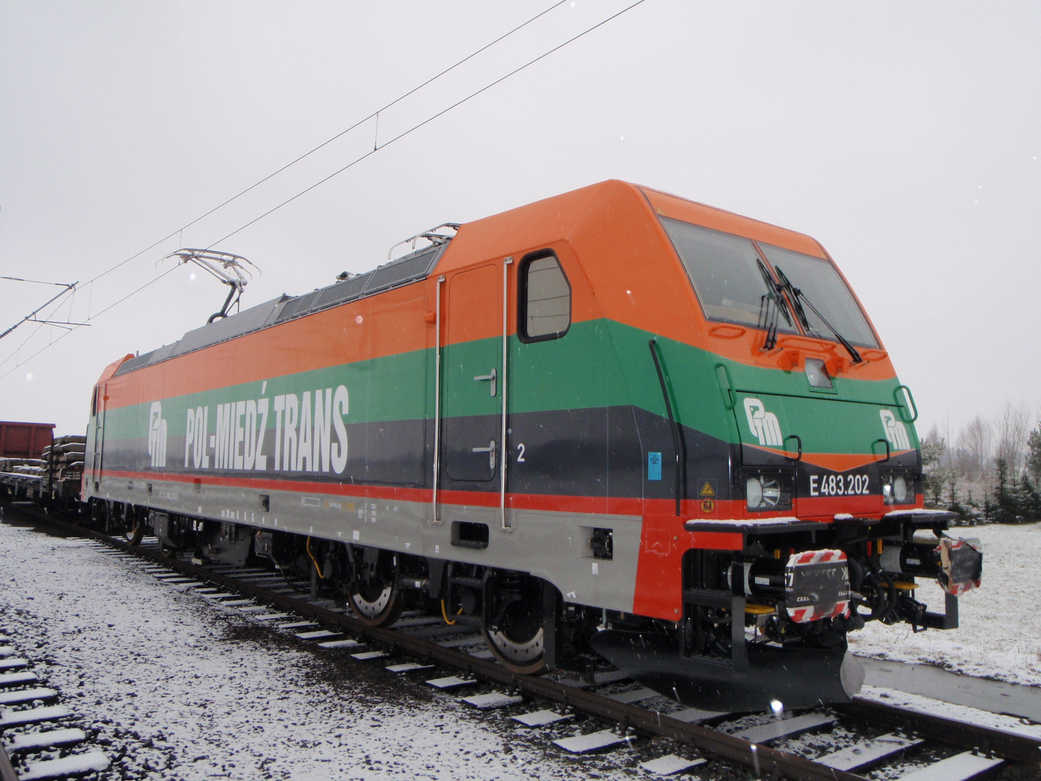 Locomotive TRAXX F140 DC for Pol-Miedź Trans